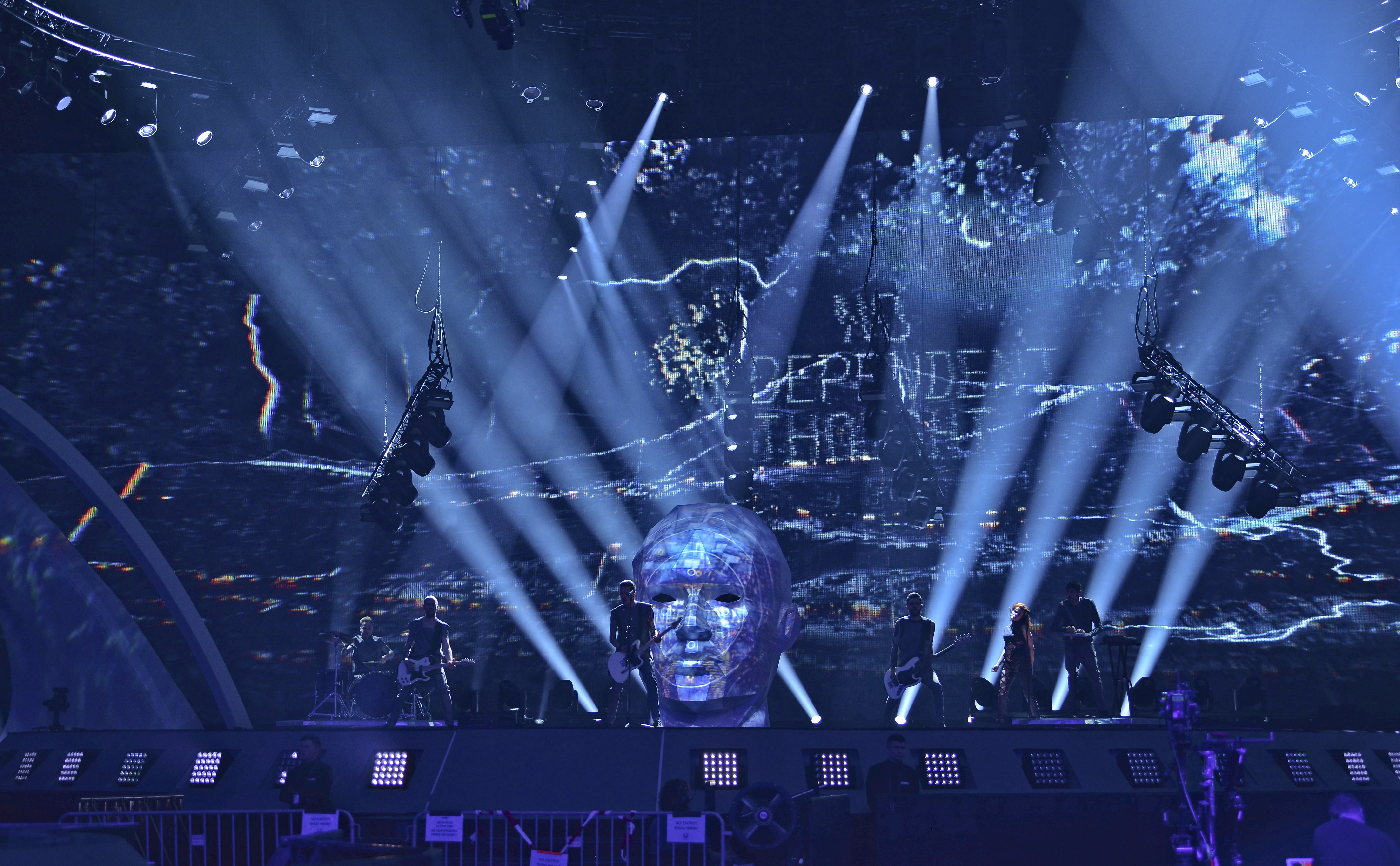 Ukrainian band O.Torvald playing the Time song on Eurovision Song Contest in Kyiv, 2017